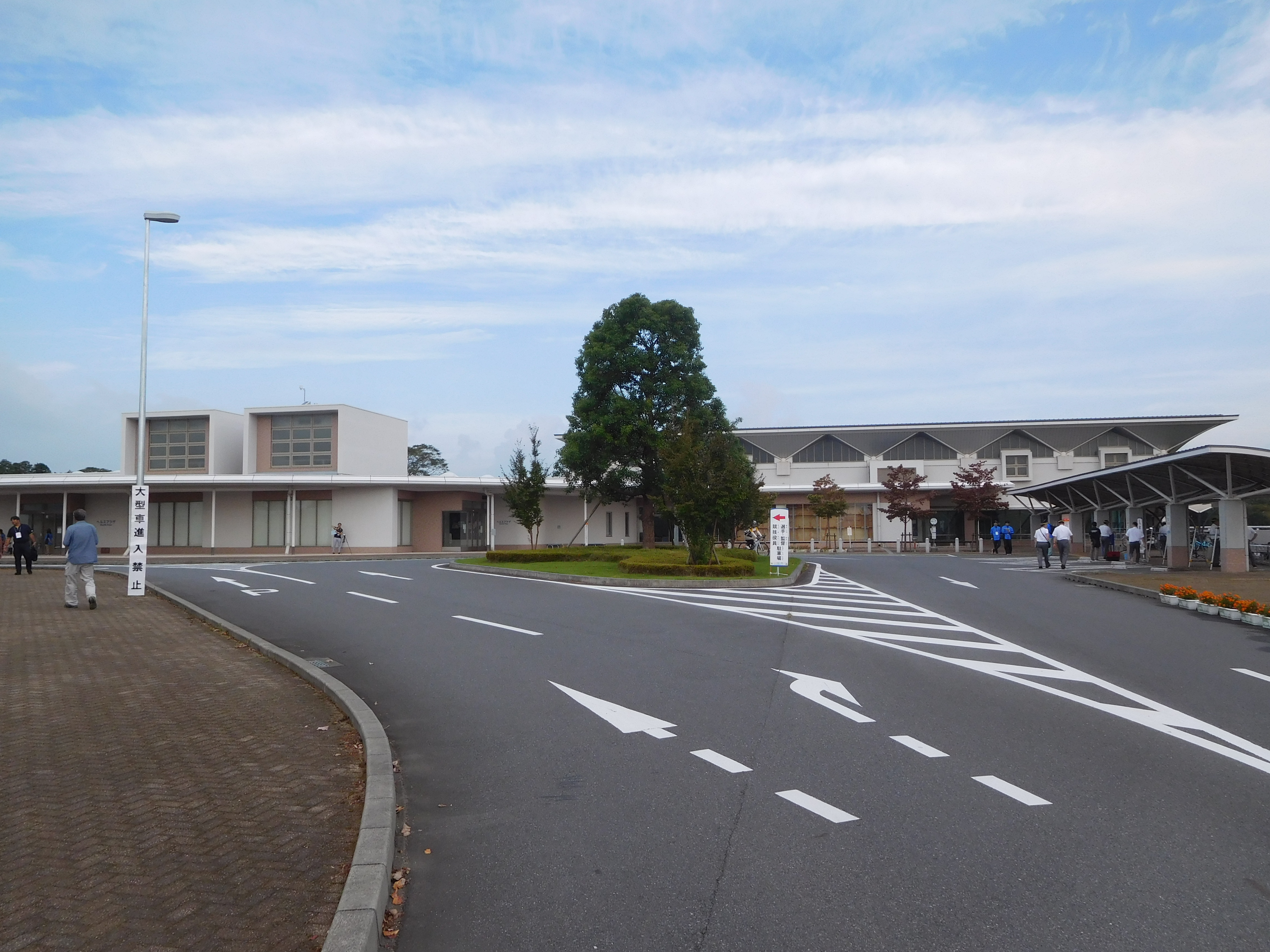 This is the Health Plaza of Tsukuba Wellness Park in Tsukuba, Ibaraki, Japan.